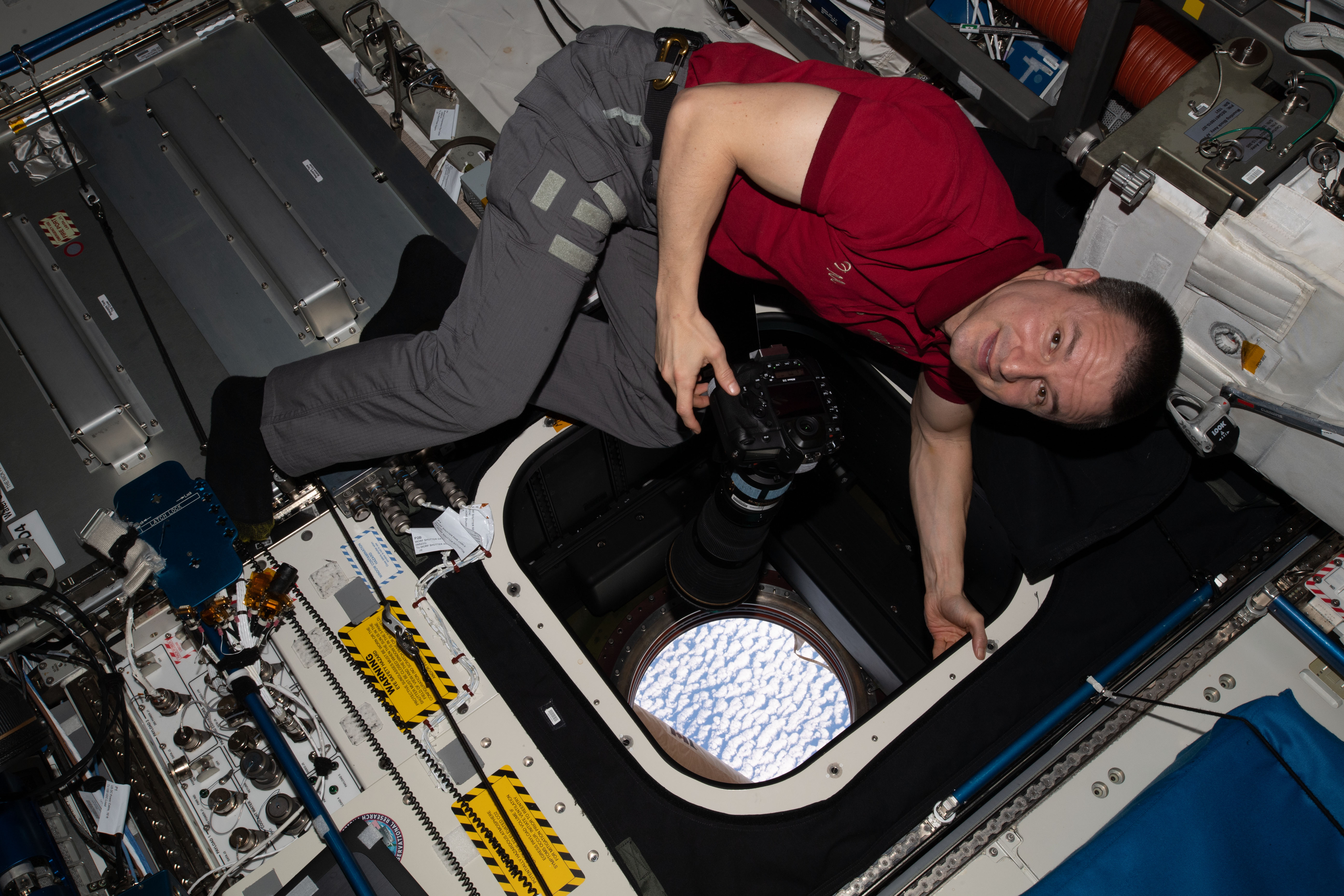 NASA astronaut and Expedition 62 Flight Engineer Andrew Morgan takes photographs of the Earth from the Window Observation Research Facility inside NASA's Destiny laboratory module.